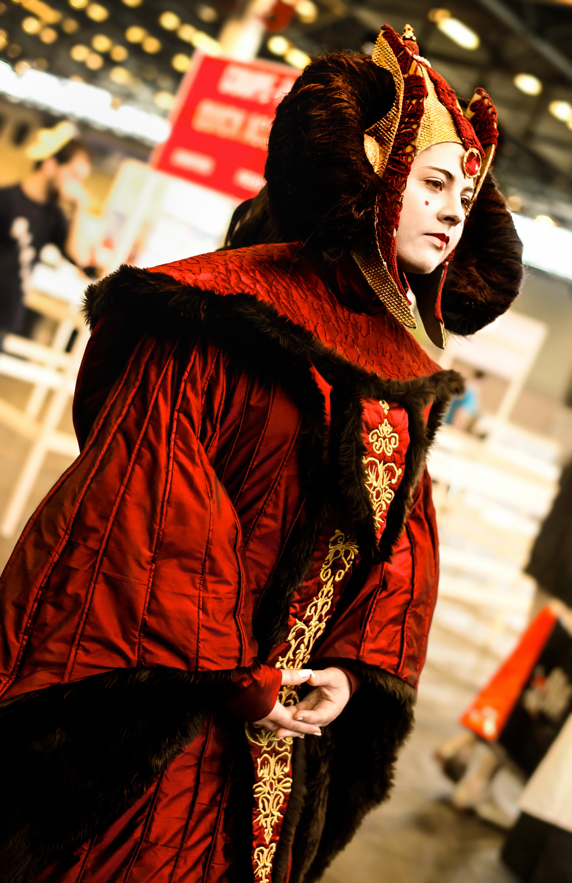 Padmé Amidala cosplay